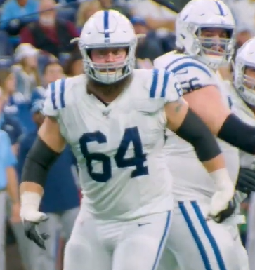 Mark Glowinski 2019. Image from video Game-Changing INTs vs. Colts | Beneath the Surface, ~ 01:09.